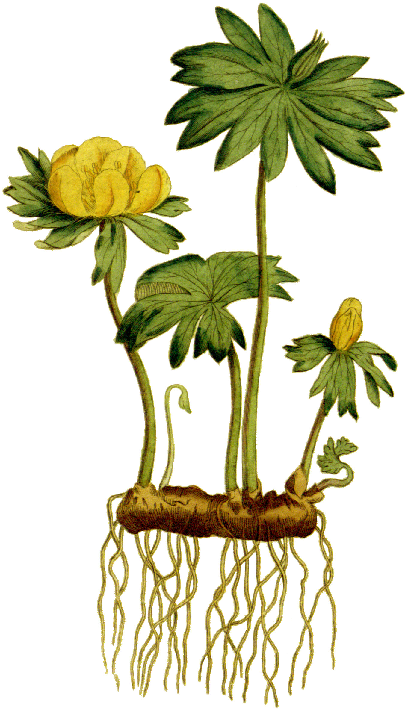 Plate 3, Helleborus hyemalis (Eranthis hyemalis) From Curtis's Botanical Magazine, Volume 1. Edited from the original, plant image has been masked so that plant could be color corrected independent of paper.